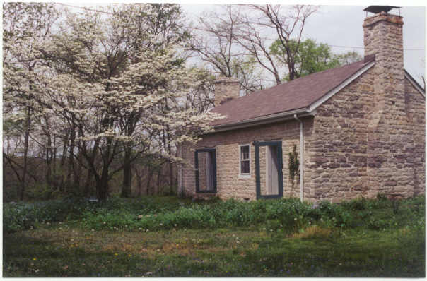 This is a picture of the stone cottage at the Blackacre State Nature Preserve and Historic Homestead. This stone cottage was the original permanent dwelling place of the Tyler family. It was built in the 1790s with stones found on the property. Today it is a private residence.